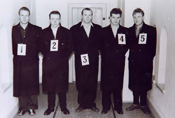 2. Confrontation - Torgersen=no.3